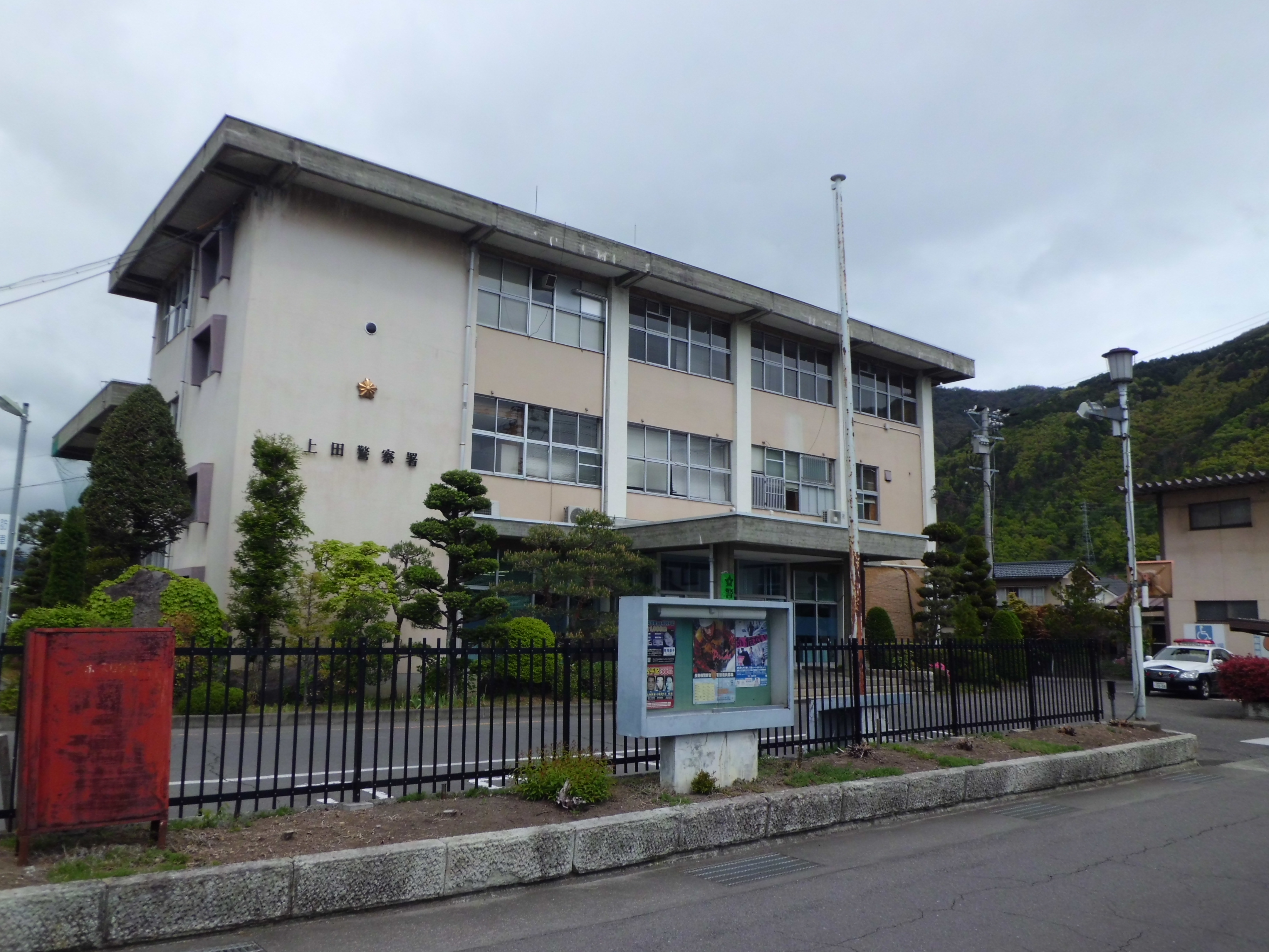 Ueda Police Station in Nagano prefecture, Japan.